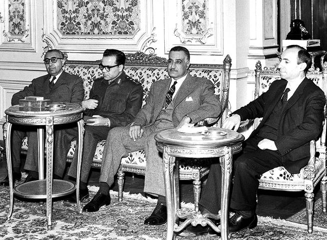 A meeting between the Syrian delegation and Egyptian/United Arab Republic President Gamal Abdel Nasser in the context of the triparititie unity talks between Egypt, Syria and Iraq. From left to right: Prime Minister Salah al-Din al-Bitar, President Lu'ay al-Atassi, Nasser, and Ba'ath Part National Command head Michel Aflaq